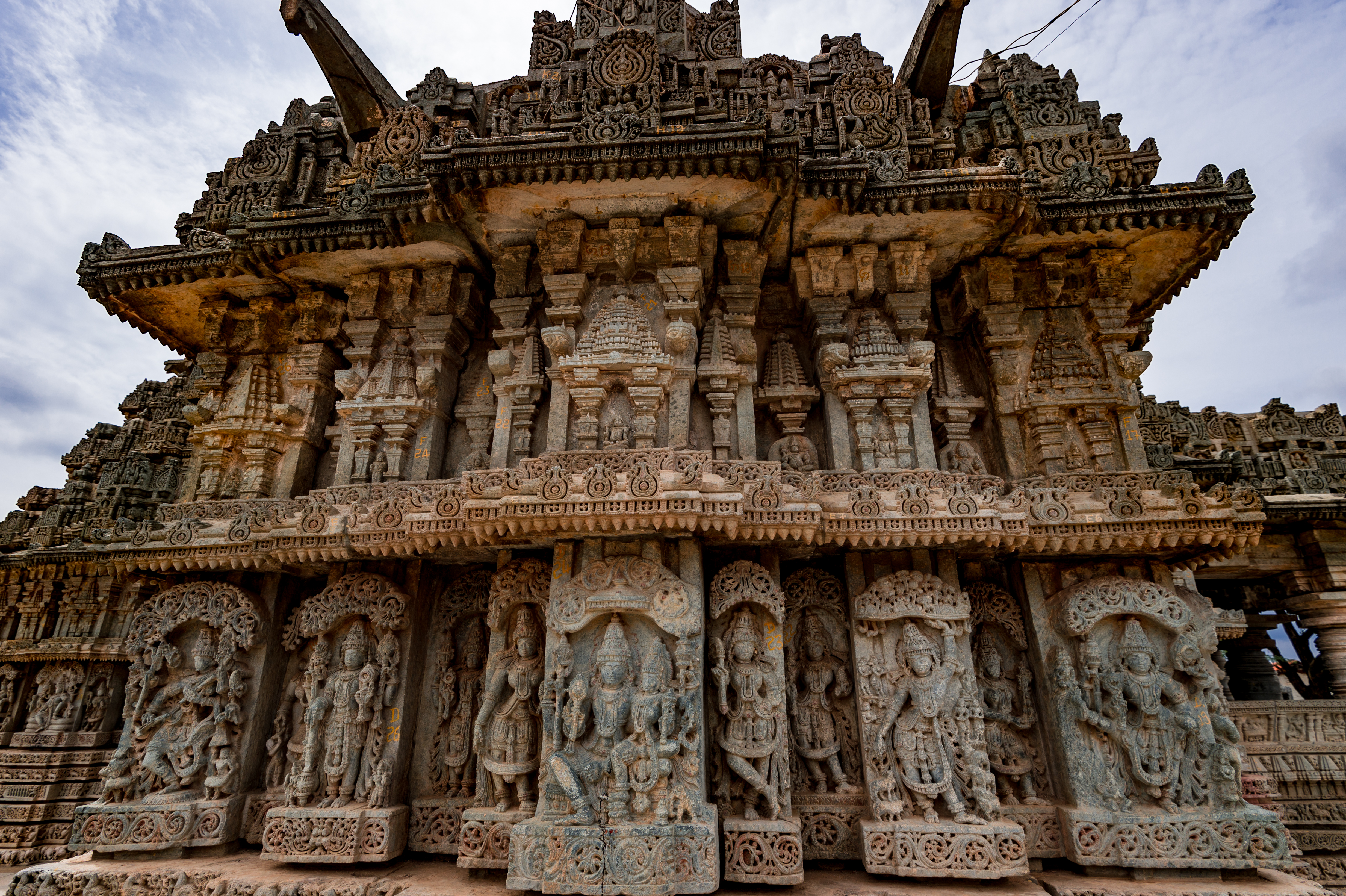 Hoysala Architechtures